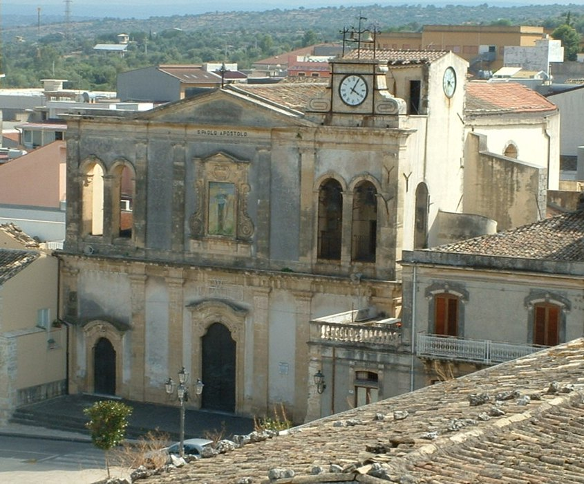 Solarino, Church of St. Paul (XVIII sec.)